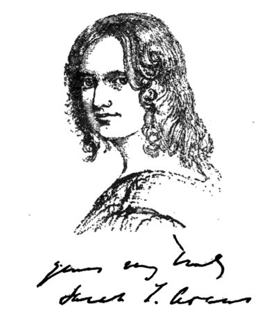 Sketch of Sarah Flower Adams.